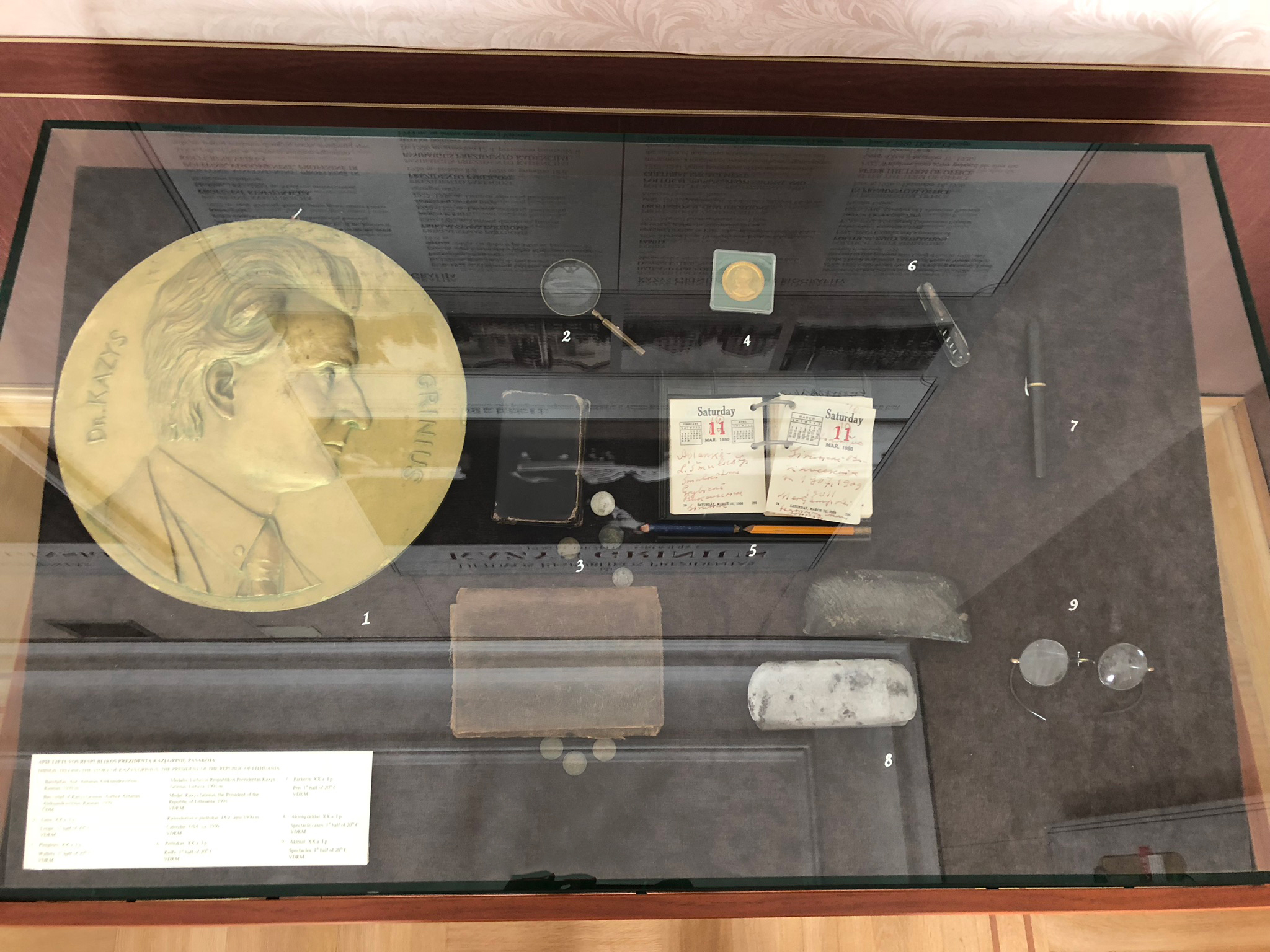 Exhibits in the Presidential Palace in Kaunas (second floor).